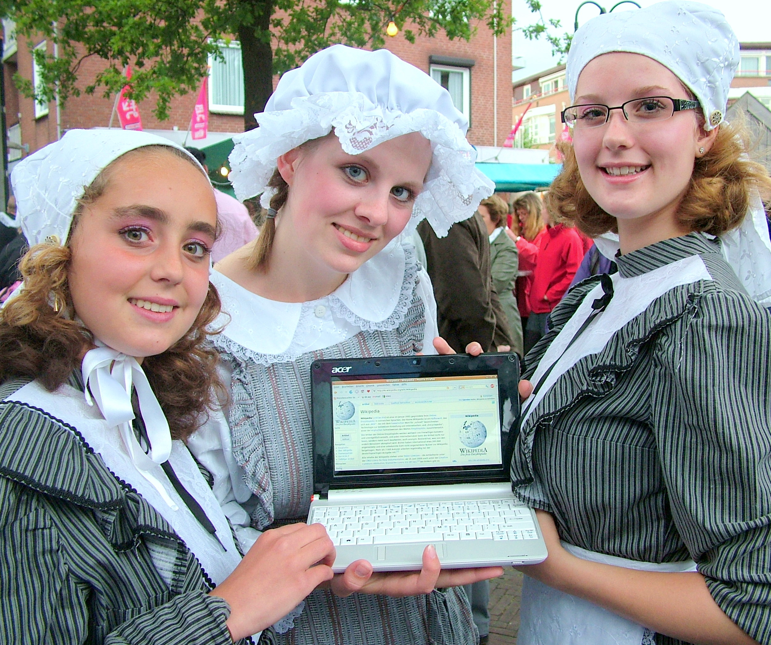 Silvolde Summermarket. Girls with Acer Aspire One and Wikipedia.